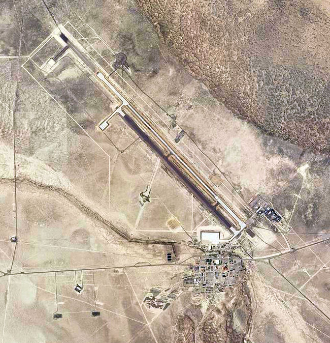 USGS digital orthophoto of Michael Army Airfield in Utah